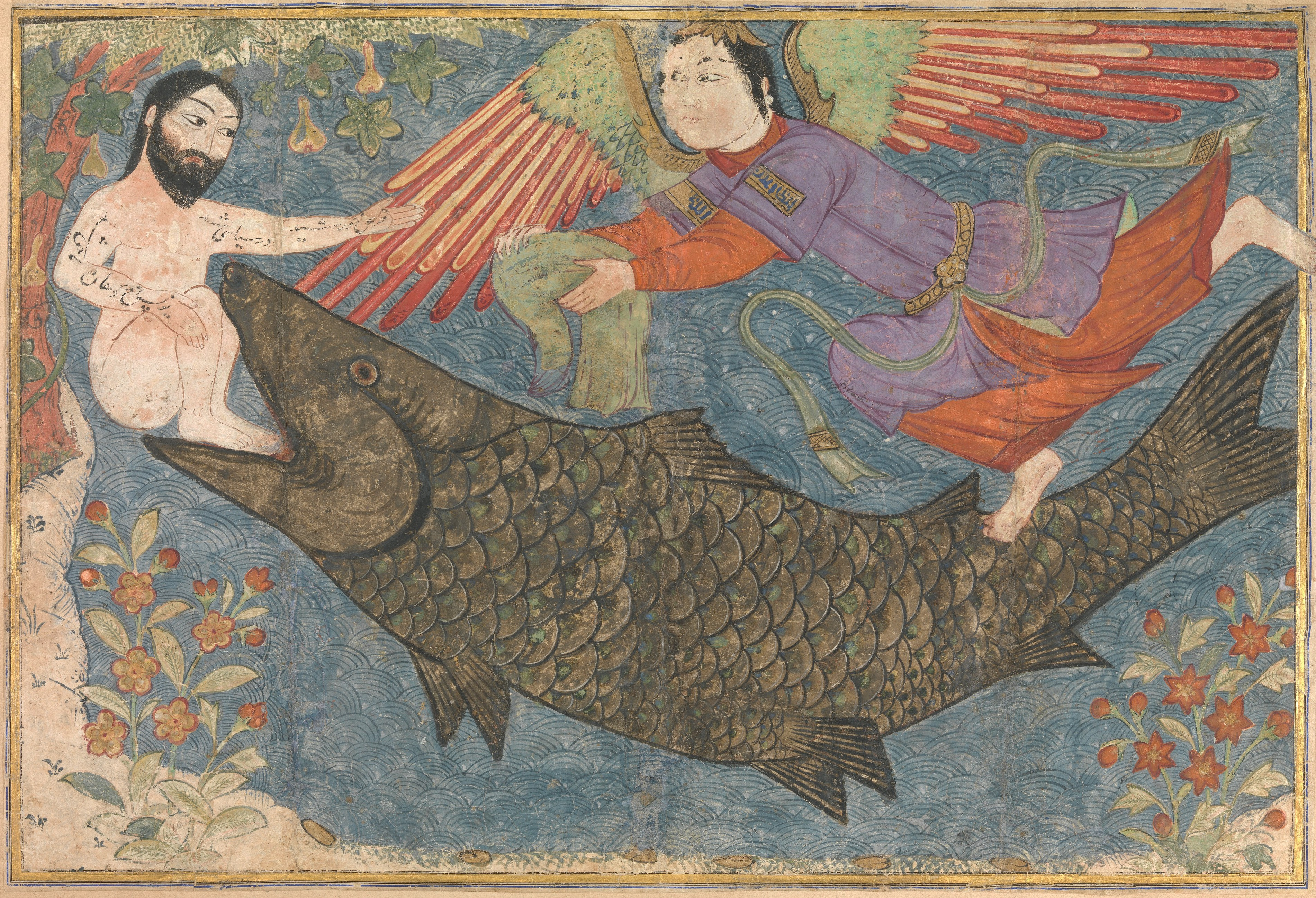 Folio from a Jami al-Tavarikh (Compendium of Chronicles)